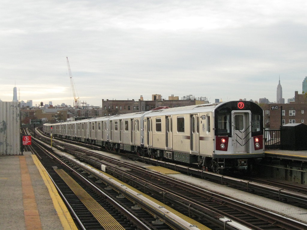 An R188 train (non-conversion set) departs the 52 Street-Lincoln Avenue station on the 7 line en route to Times Square.